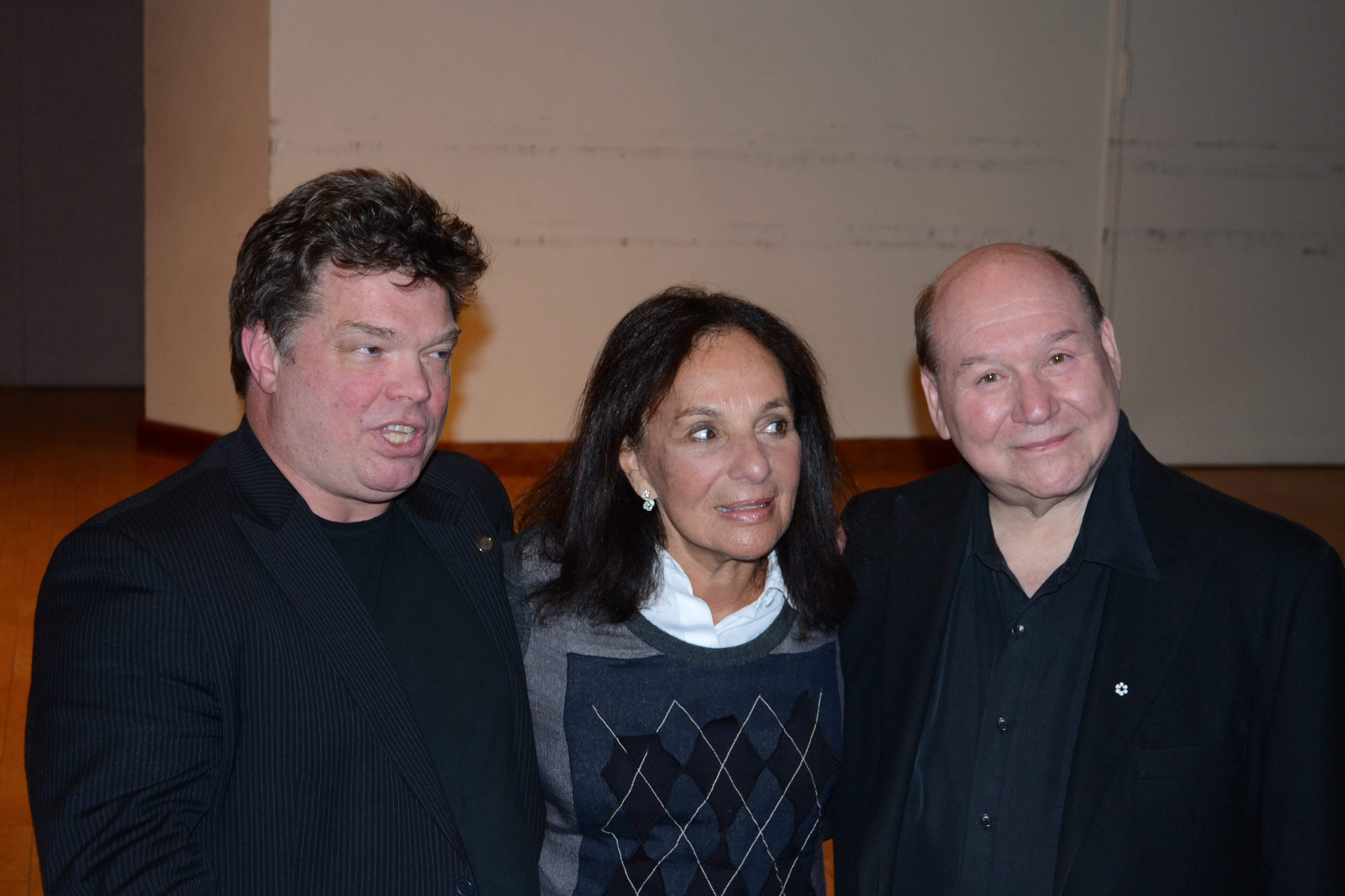 Paul Hoffert - after the "McLuhan, Media, & Music: Media Theory for Performers and Composers" Lecture at the University of Toronto.